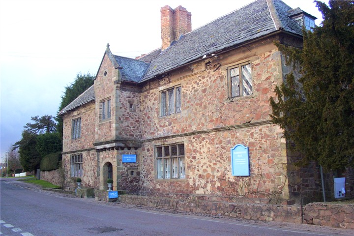 Narborough Hall, Leicestershire, UK. taken by Kev747